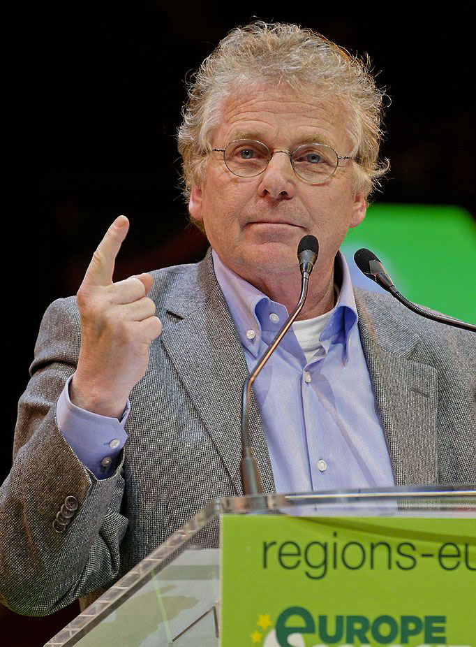 Daniel Cohn-Bendit at Europe Écologie's closing rally of the 2010 French regional elections campaign at the Cirque d'hiver, Paris.